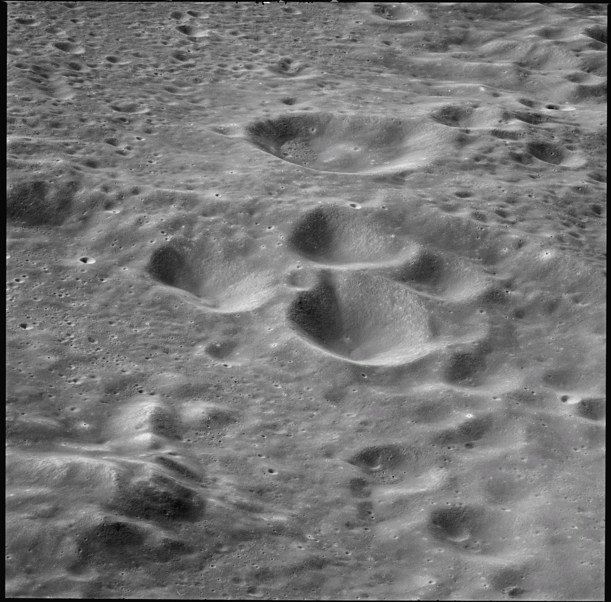 Oblique view of part of Schuster, on the moon.